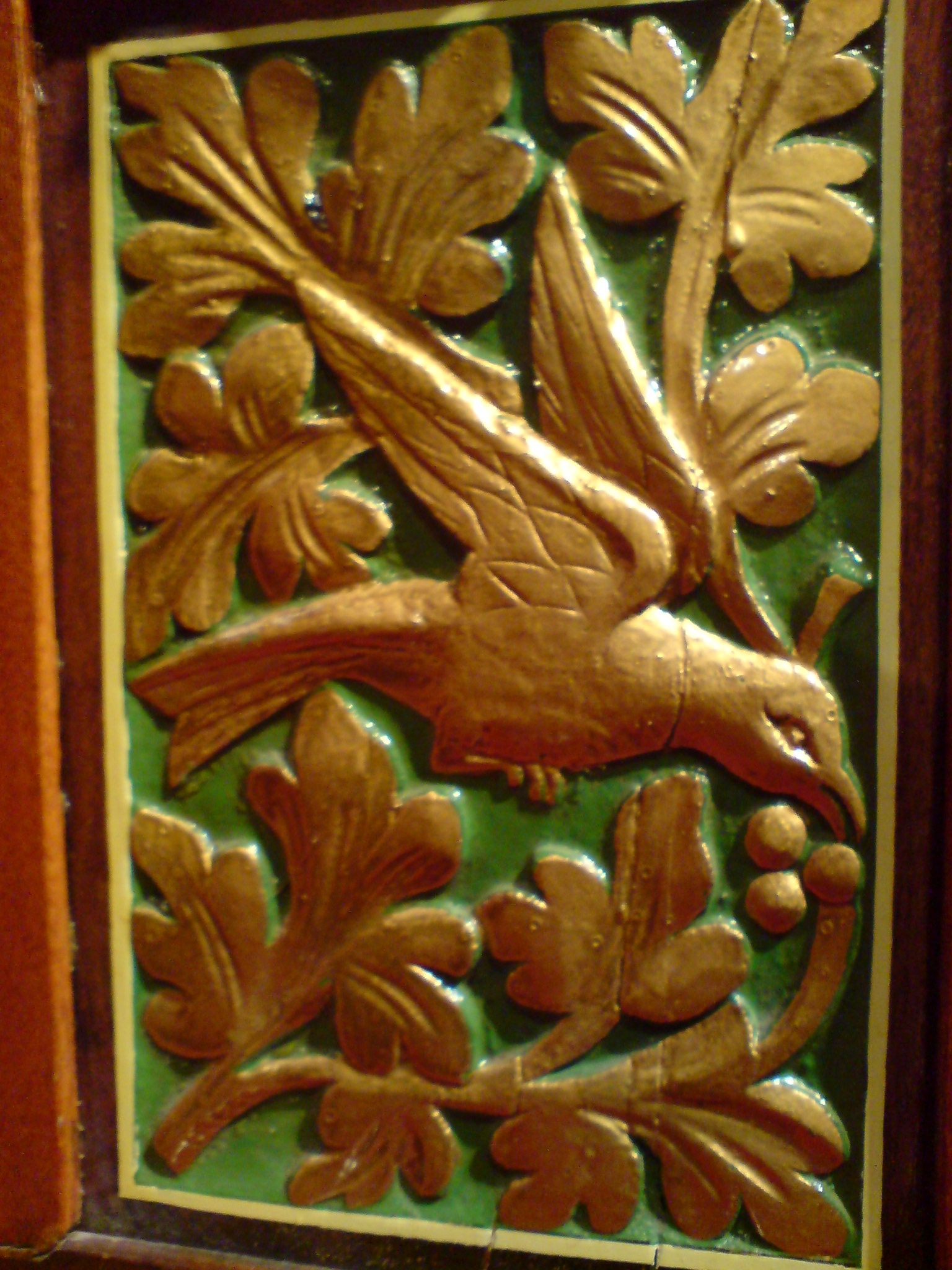 Description: Blah Source: My own work Date: 26/07/08 Location: At a transport museum Glasgow. Author: None taken by Sunset through the clouds (talk) 00:13, 27 October 2008 (UTC)